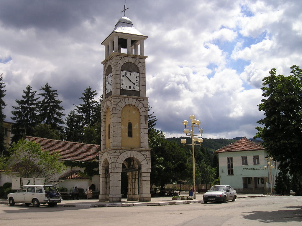 The center of village Chuprene, Bulgaria. 19 June 2005